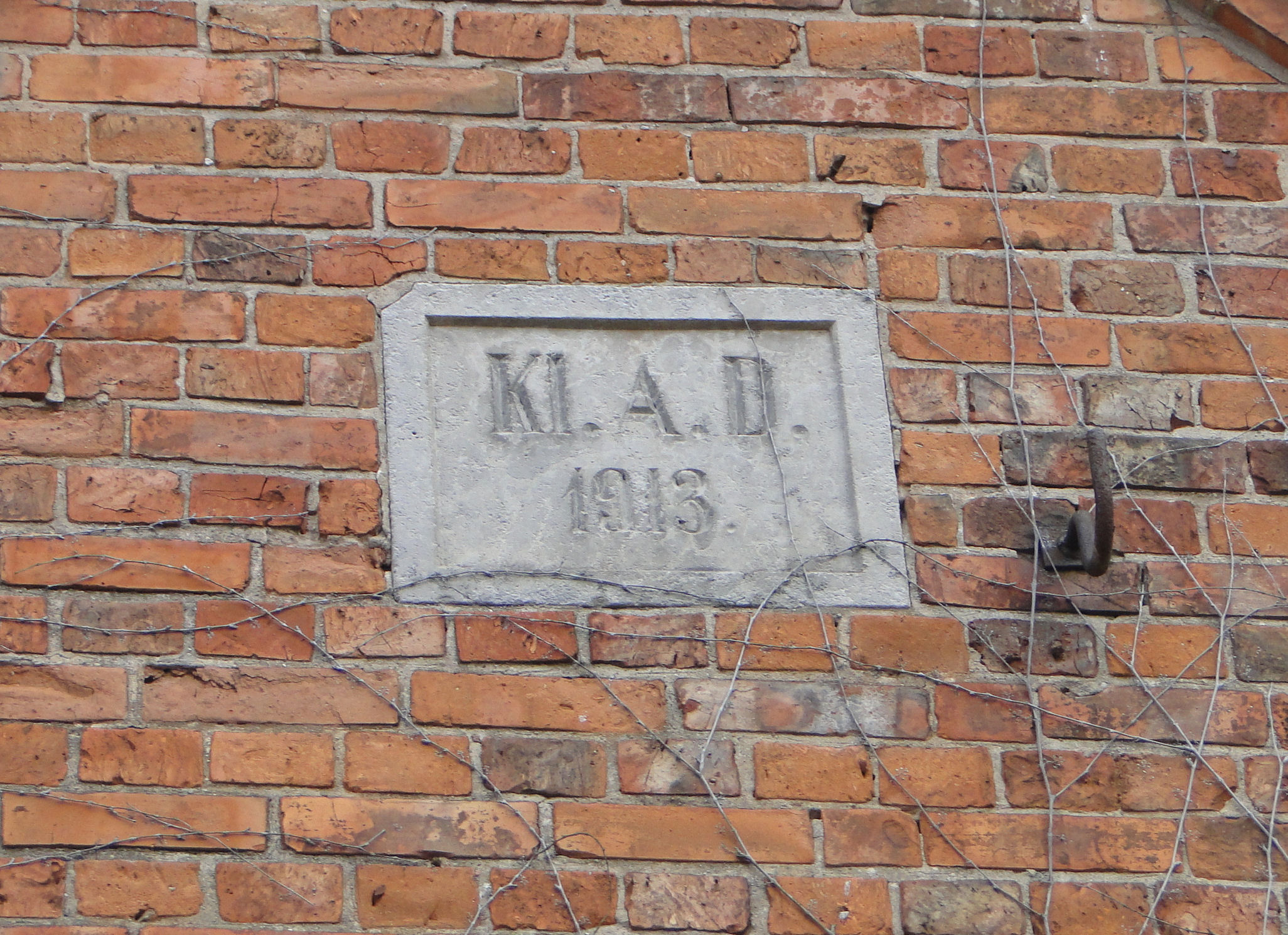 Inscript at a gable in Neu Schwinz, district Parchim, Mecklenburg-Vorpommern, Germany